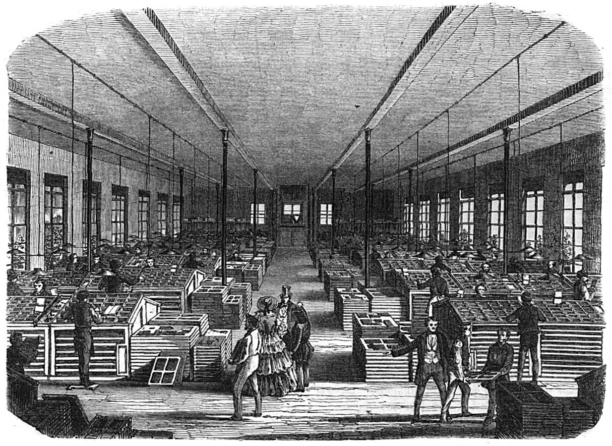 caption: "Der Setzersaal."